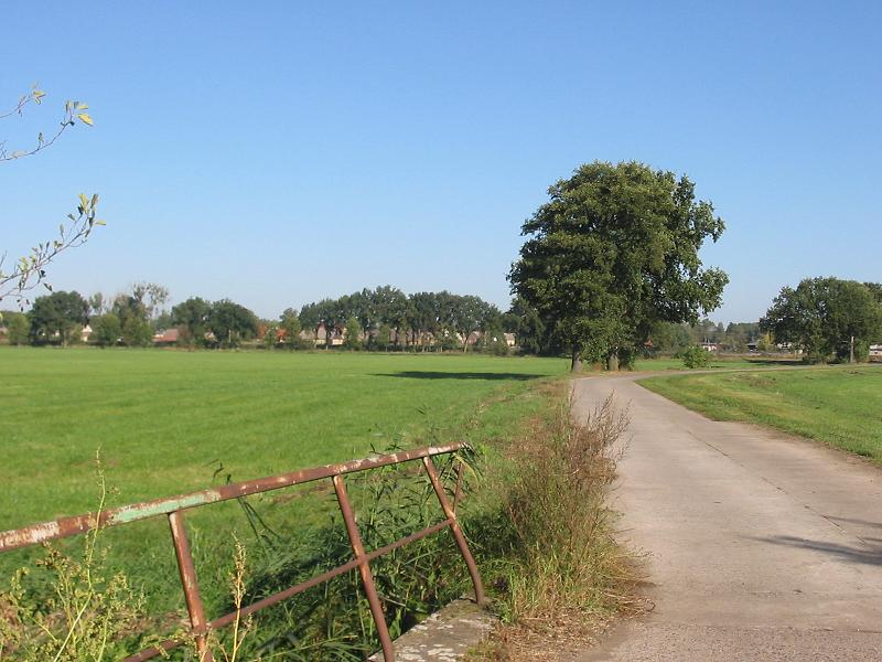 Street from Neuendorf to the „Urstromtal“. The village Neuendorf is a part of the town Brück in the district Potsdam Mittelmark, state Brandenburg, Germany. The village is situated on the north border of the „Baruther Urstromtal“ (glacial valley) subplateau Zauche.